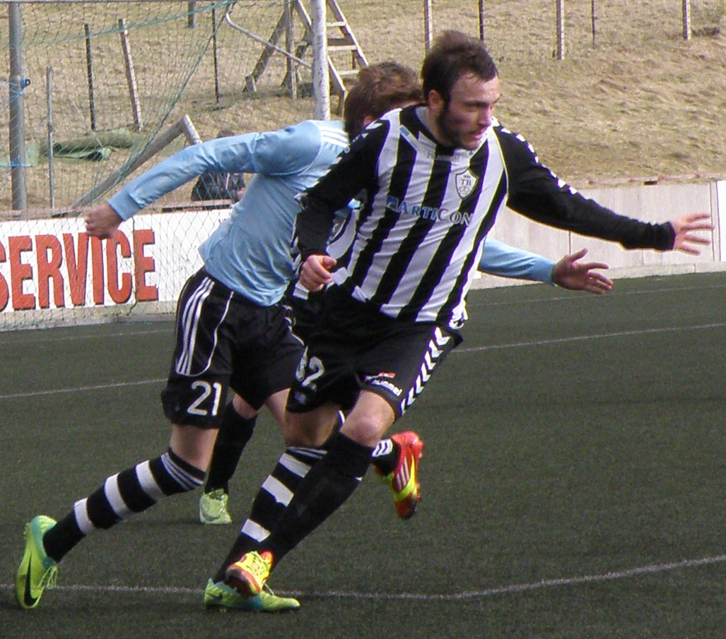 Igor Grkajac is a Serbian football (soccer) player, who currently plays for TB Tvøroyri in the Faroe Islands. This photo was taken when TB played its first match in Effodeildin in the 2012 season. TB was playing in the second tire for some years, but in 2011 they were promoted to the Premier League of the Faroe Islands. Igor Grkajac plays as a striker. The match was against Víkingur Gøta, who won the match 2-0. Føroyskt: Igor Grkajac spælir í løtuni (2012) við TB. Hann er álopsspælari. Henda myndin varð tikin tá TB spældi sín fyrsta dyst í bestu fótbóltsdeildini í fleiri ár, eftir at hava spælt nøkur ár í næstbestu deildini, er Føroya elsta fótbóltsfelag aftur í bestu deildini. Igor er úr Serbia. Dysturin varð spældur á Eiðinum í Vági 25. mars 2012. Víkingur vann dystin 0-2.